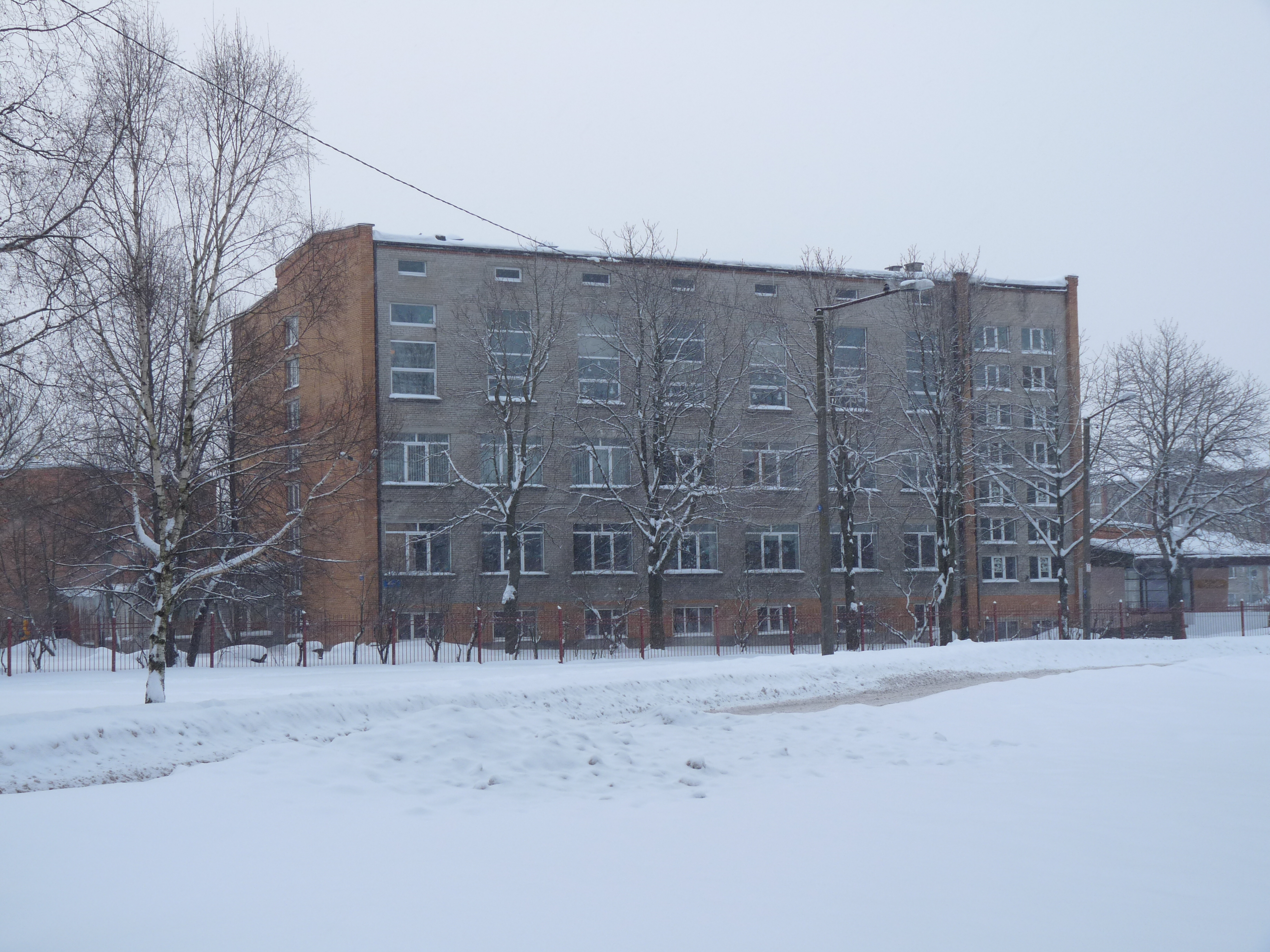 Kari Gymnasium in Tallinn